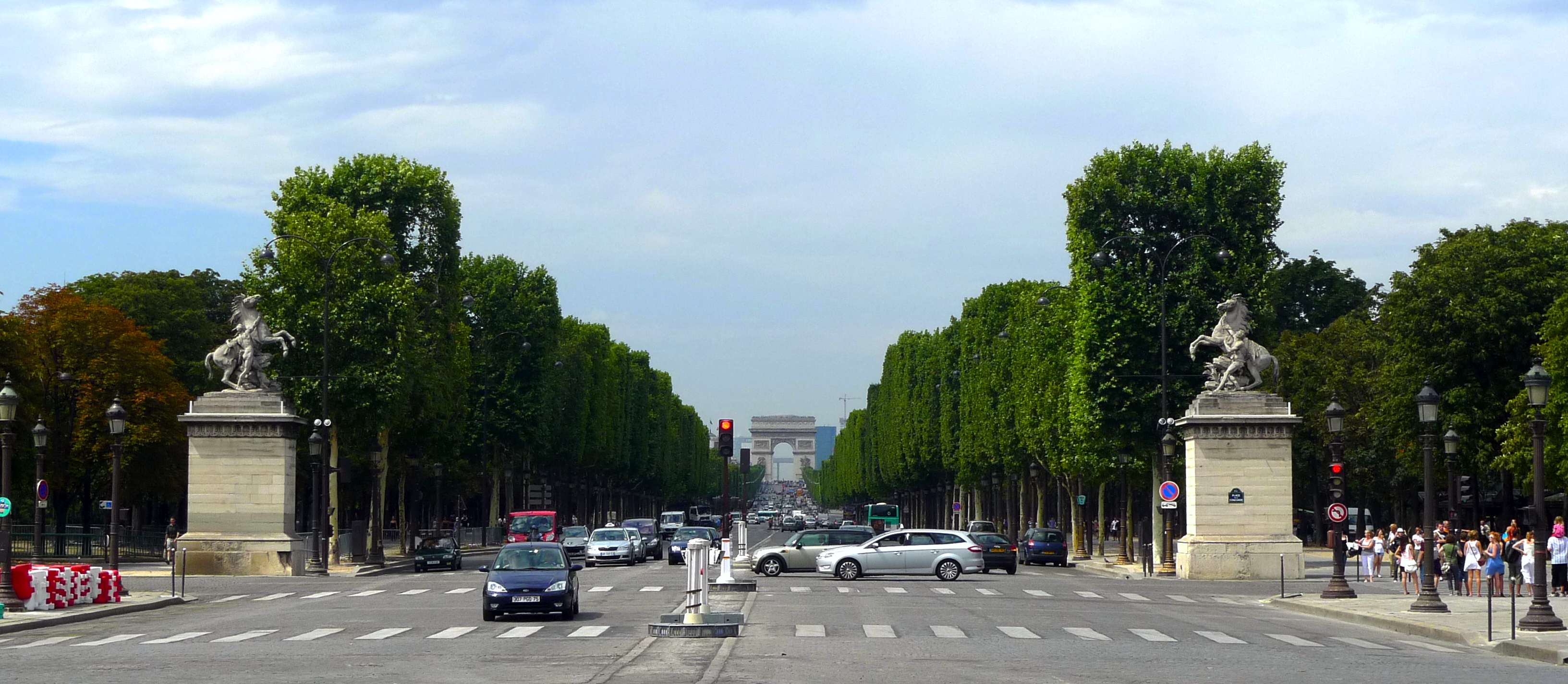 Avenue des Champs-Élysées, ParisThe title of the photo is: place de la Concorde (PARIS,FR75)This is a cropped version of the photo.